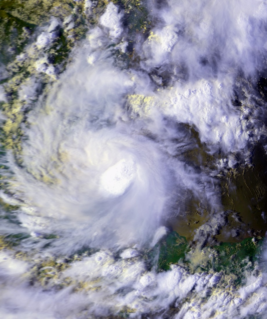 Hurricane Debby on September 2 at approximately 2138 UTC. This image was produced from data from NOAA-9, provided by NOAA.